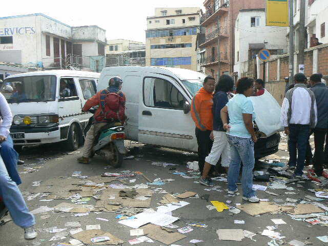 2009 Malagasy political crisis 2009,1,27 Reprint from Flickr